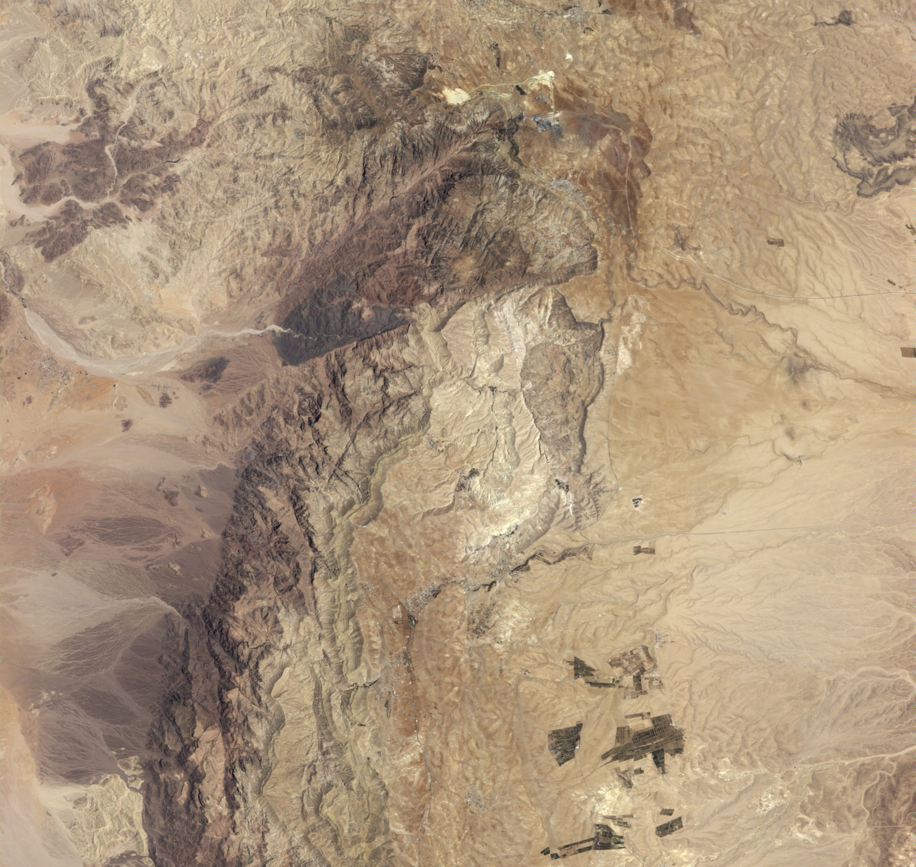 Black piles of slag define Khirbat en-Nahas, a copper mining and smelting site, which is annotated at top left in this image. It is not so unusual that a copper mine should show up in a satellite image, but Khirbat en-Nahas is remarkable because it was built some 3,000 years ago. The faint square on the northern edge of the site is an Iron Age fortress.